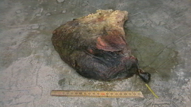 gangrened udder (which sloughed naturally) of a cow with gangrenous mastitis Walon: moirt pés (k' a toumé tot seu) d' ene vatche k' a fwait del mamite å grangrin